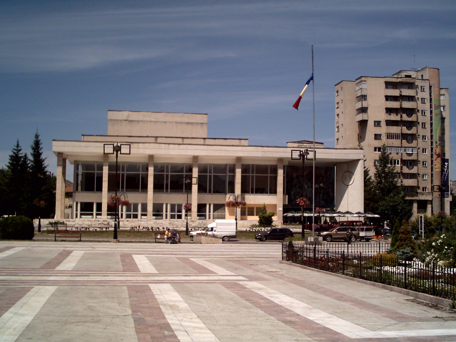 Modern theatre Made by Morar Tamás and Balázs Szilárd ( , )